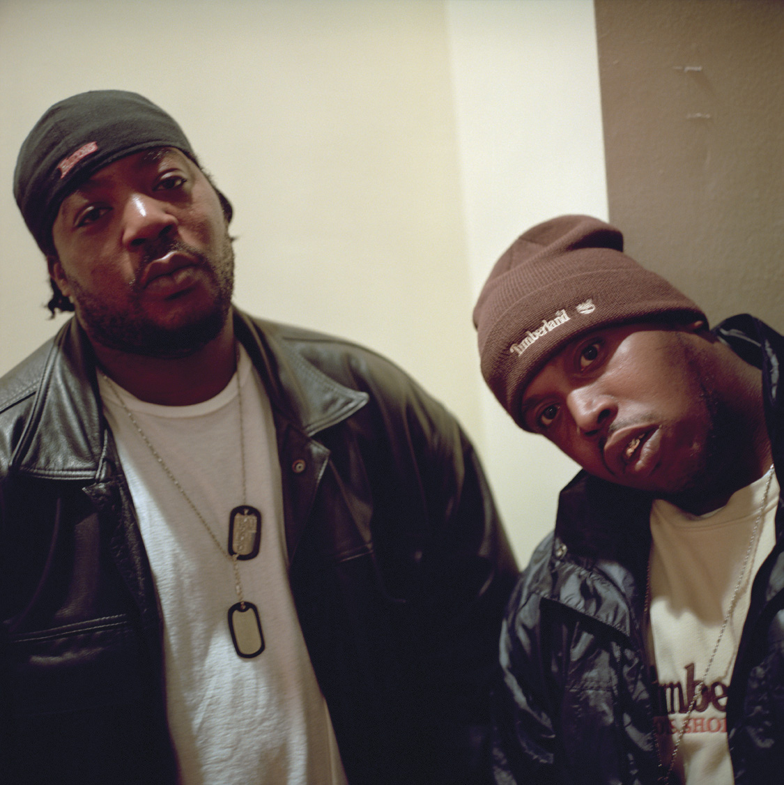 Hamburg/Germany 2001